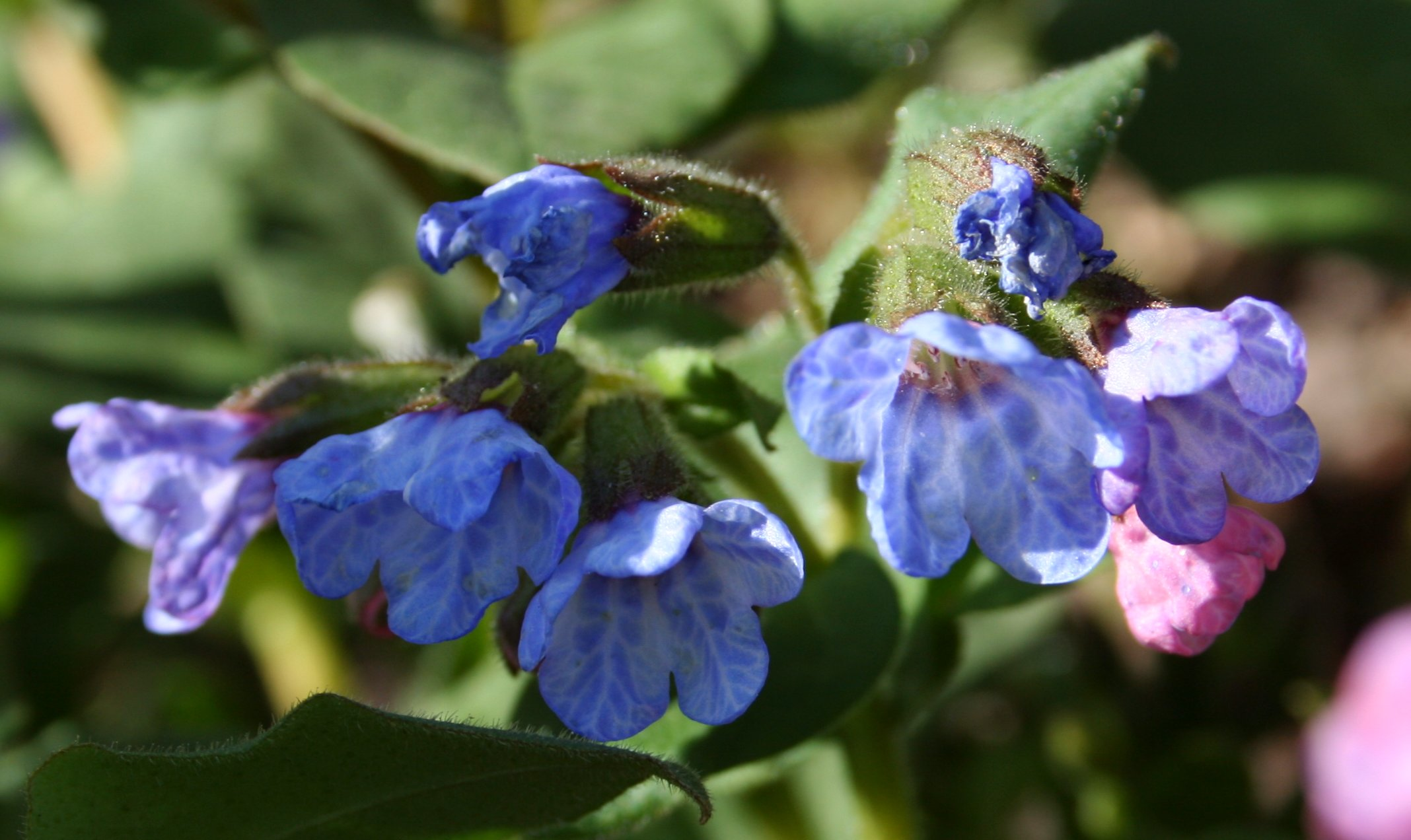 Pulmonaria officinalis